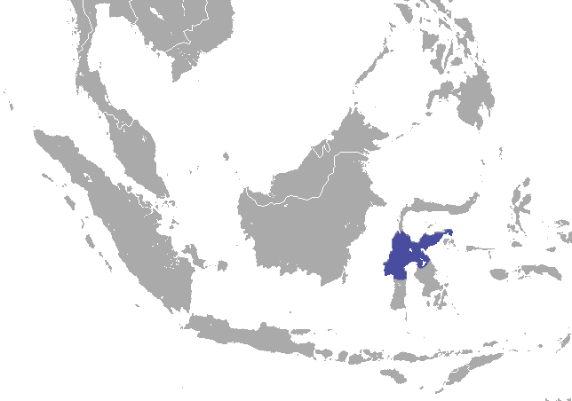 Tonkean Macaque (Macaca tonkeana) range